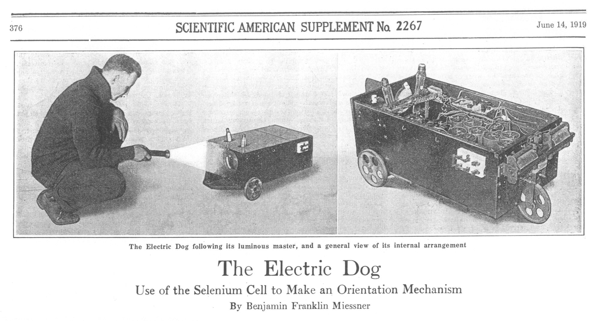 The Electric Dog, a 1912 phototropic automatic vehicle